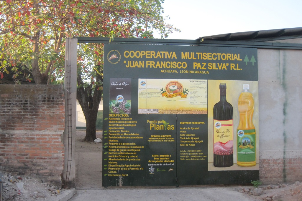 Cooperativa Multisectorial Juan Fransico Paz Silva en Achuapa, Nicaragua